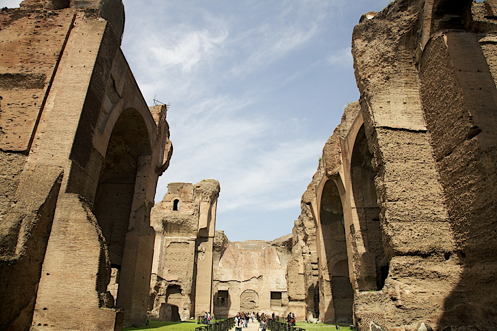 Baths of Caracalla